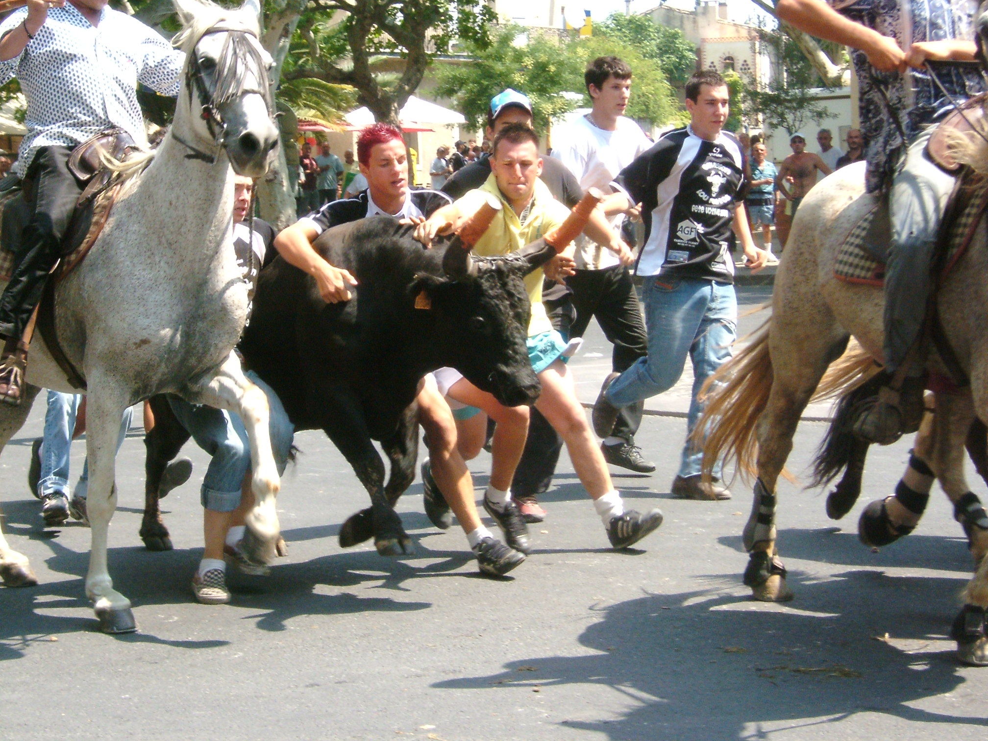 At the Bandido at 30420 Calvisson, the local heros are catching this bull. The bull will be stopped, and then released. It takes great speed and skill to run between the horses and the bull and coordination to grab it simultaneously from both sides.